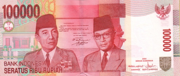 Indonesian currency issued 1998-2005.